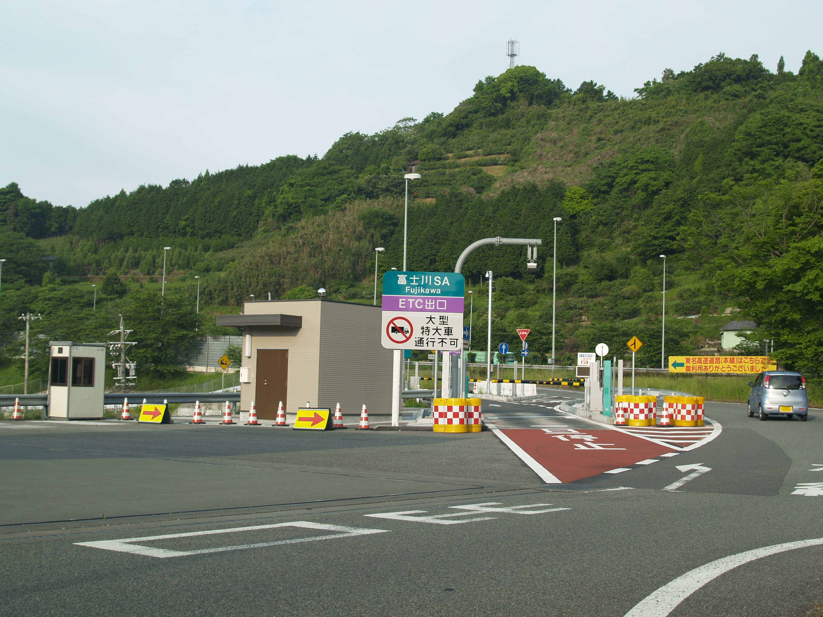 Fujikawa Smart Interchange attached to Fujikawa Service Area on the Tomei Expressway, as seen from within the service area